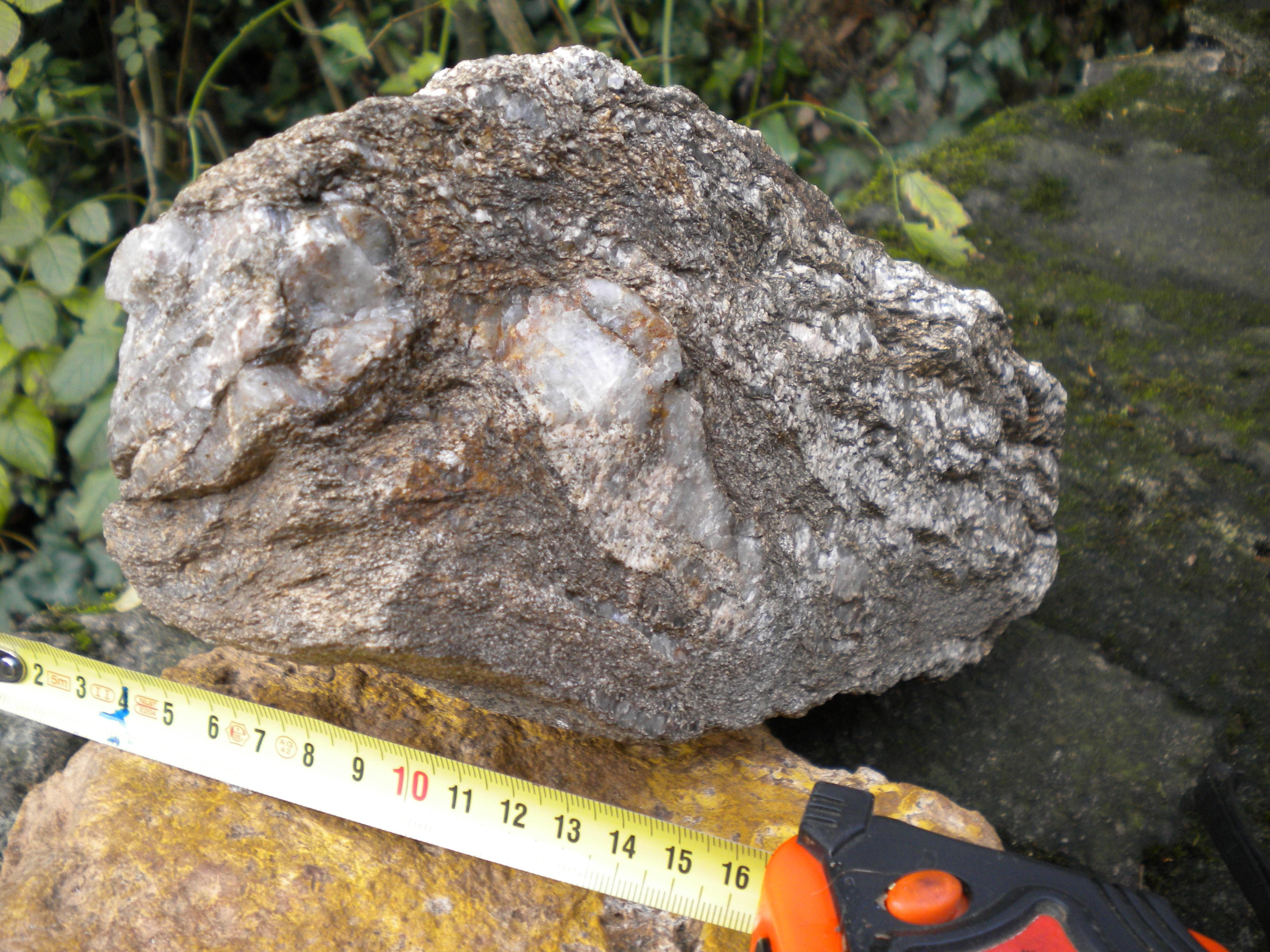 Paragneiss from the Arvernian Domain near Nontron, Dordogne, France. Showing orthogonal porphyroblasts (C/S structures). Top on right hand face deforming in opposite sense (sbc structure). This sample exemplifies 3 deformational stages in the Massif Central.